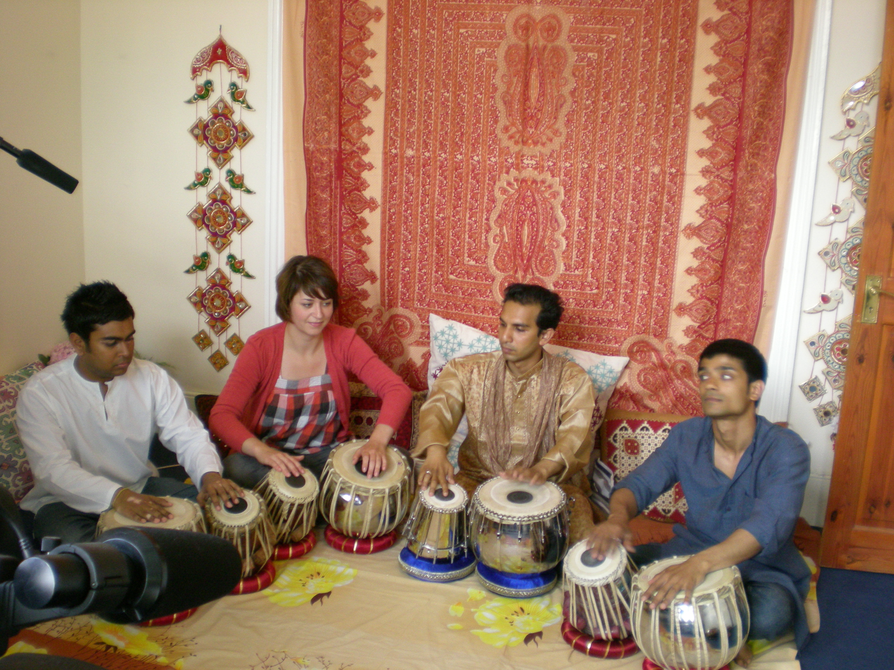 Tabla playing with Pandit Sudarshan